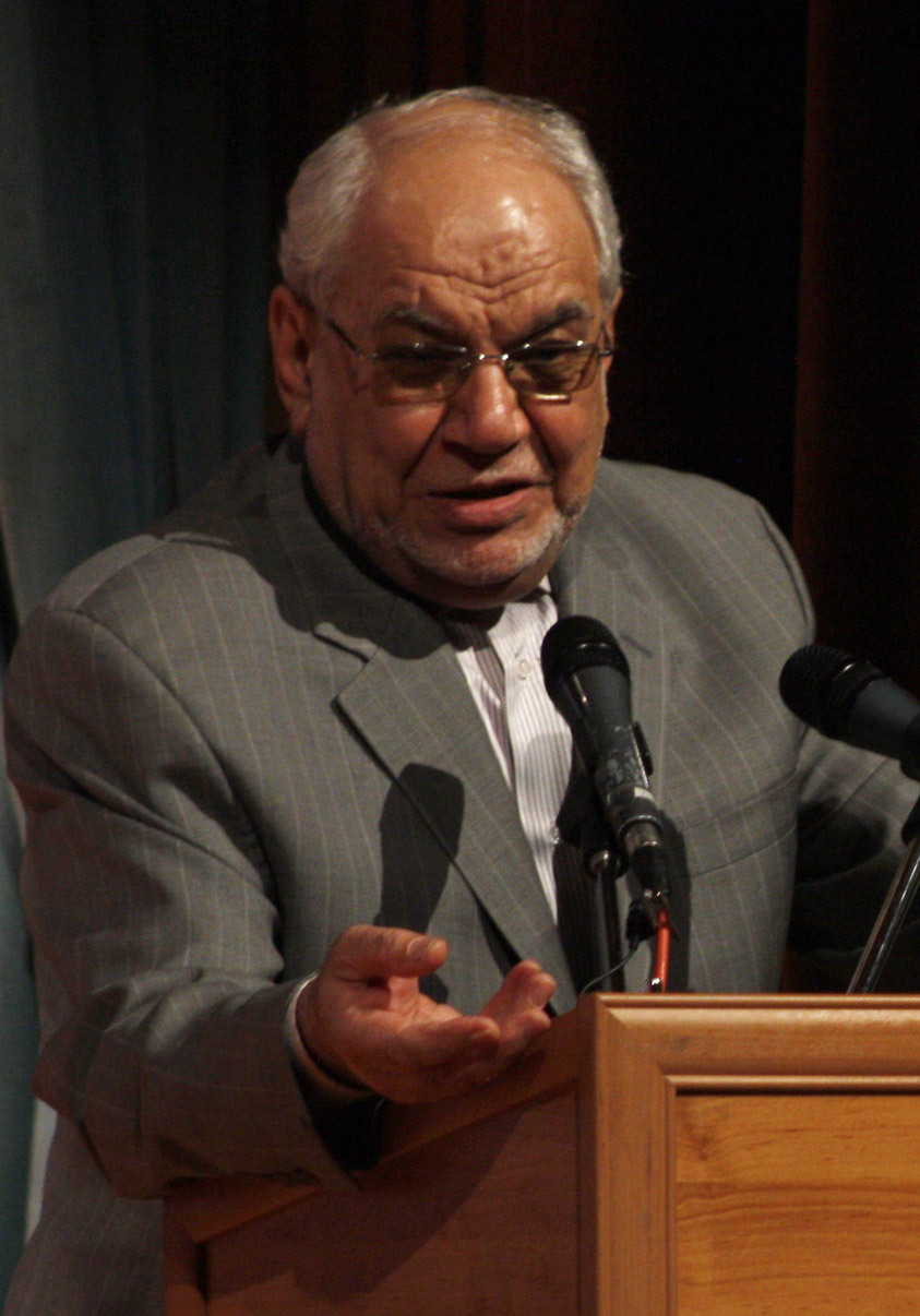 Gholamreza Avani, Iranian philosopher